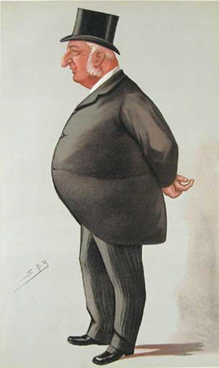 Caricature of William James Richmond Cotton. Caption read "the City".